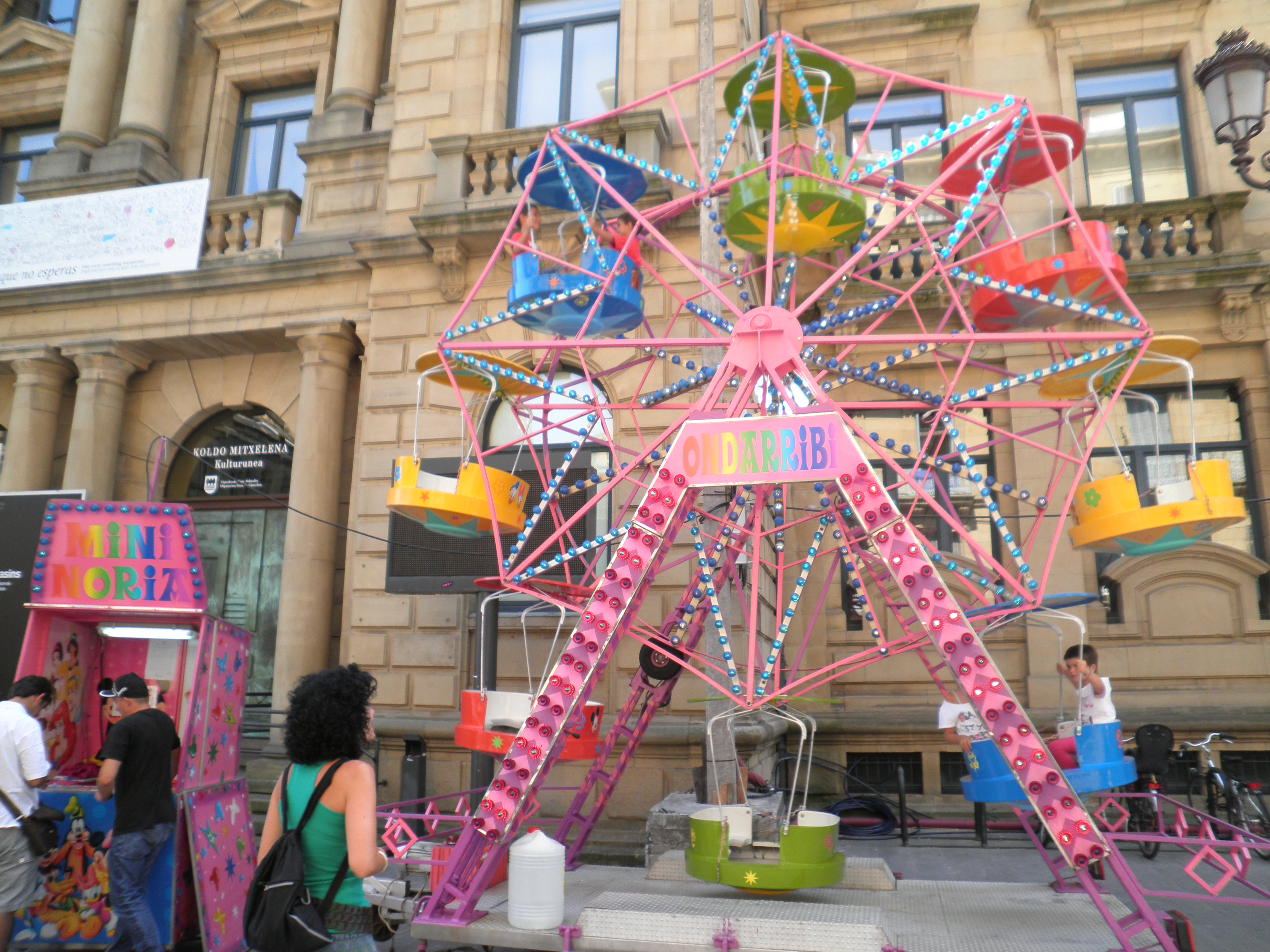 Ferris wheel in Donostia.